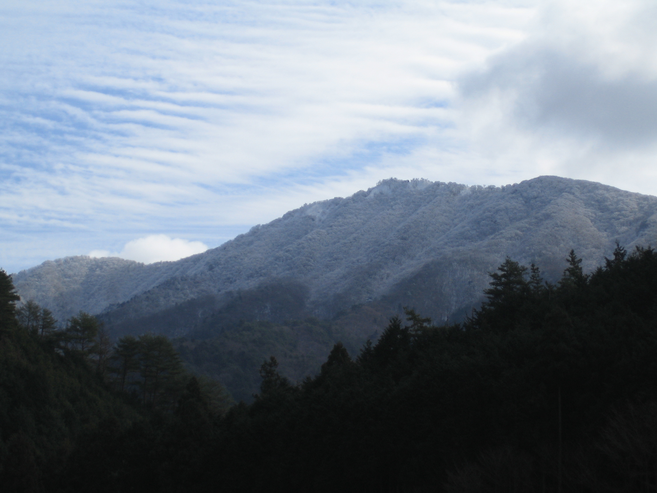 Mount Takami as seen from the WNW. Shot at Hirano, Higashi-Yoshino, Nara, Honshu, Japan.